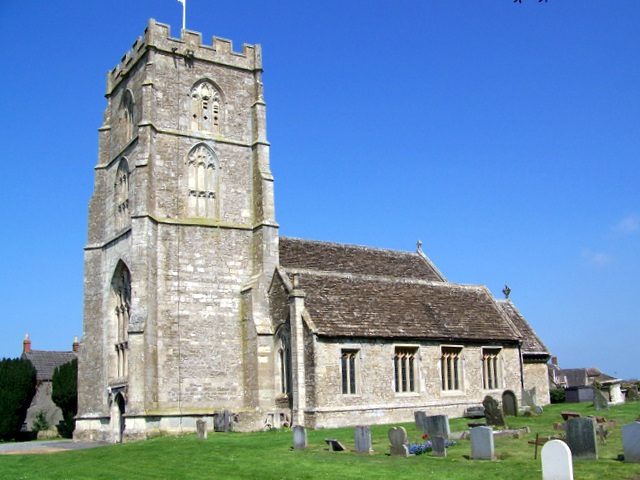 St Laurence parish church, Rode, Somerset, seen from the south